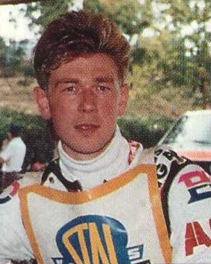 Einar Kyllingstad in polish speedway team Stal Gorzow in season 1992.